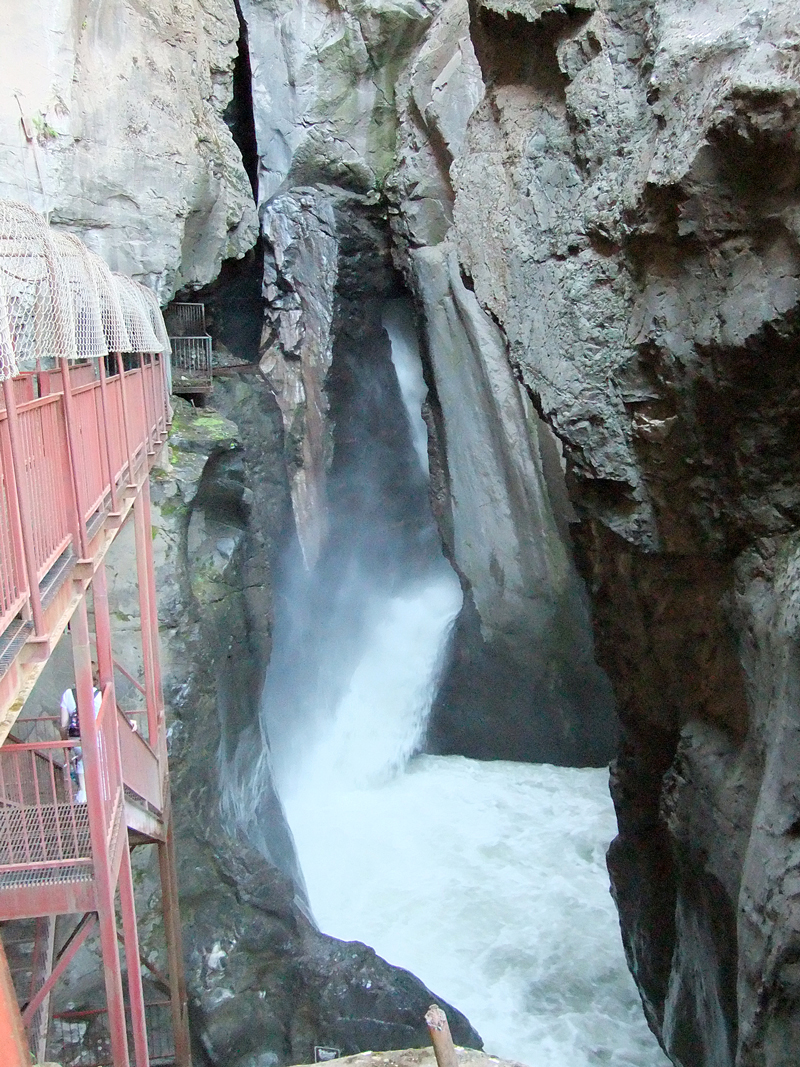 box canyon falls near Ouray, Colorado.